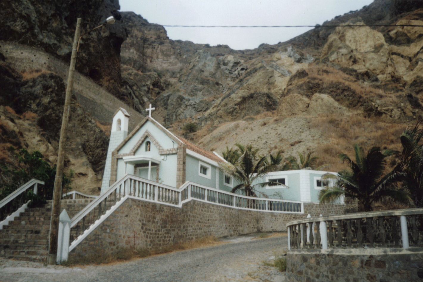 Church in Fajã de Agua, ilha Brava, Cabo Verde.